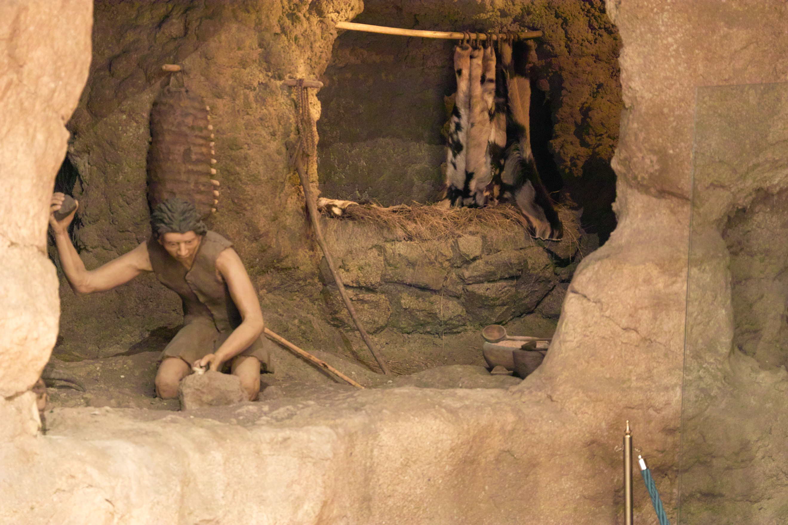 Model of habitat in the Museo Arqueologico Benahoarita.